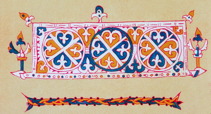 Galitskoe Gospel